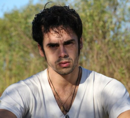 Sergio Podeley